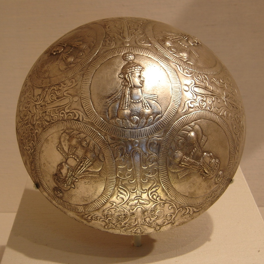 Bowl with female busts in medallions. Silver. Late 3rd, early 4th century. The lady portrayed in five medallions on this bowl has a hairstyle that suggests that she may have been a Queen in the Sassanian royal family at the time of King Narseh. Silver Sassanian medallion bowls inspired a type of Central Asian luxury production that persisted well beyond the geographical borders and chronological limits of the Sassanid empire.